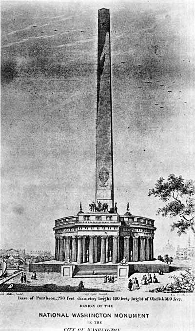 Sketch of the proposed Washington Monument by architect Robert Mills